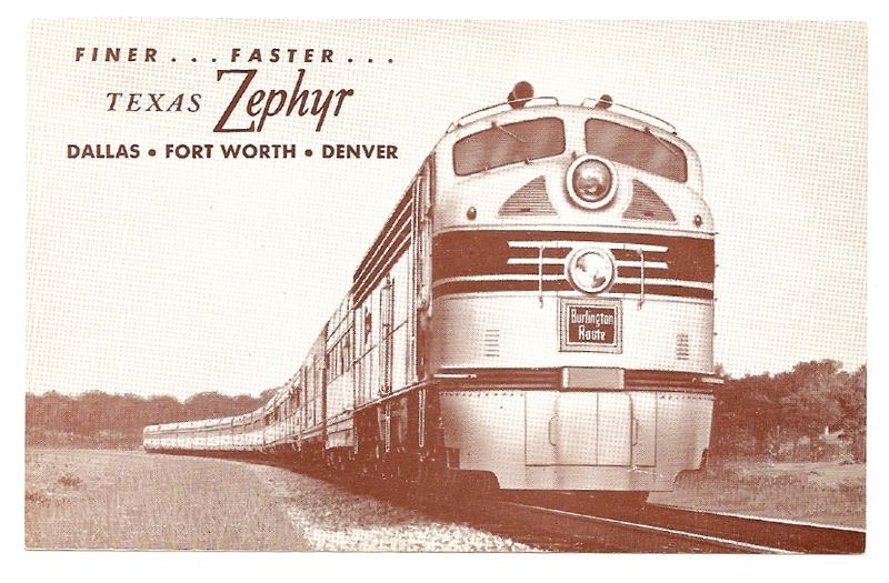 Postcard depiction of the Burlington train, the "Texas Zephyr". The train traveled from Denver to Texas.